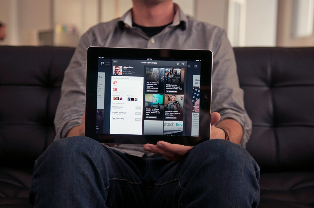 Fluding on the couch